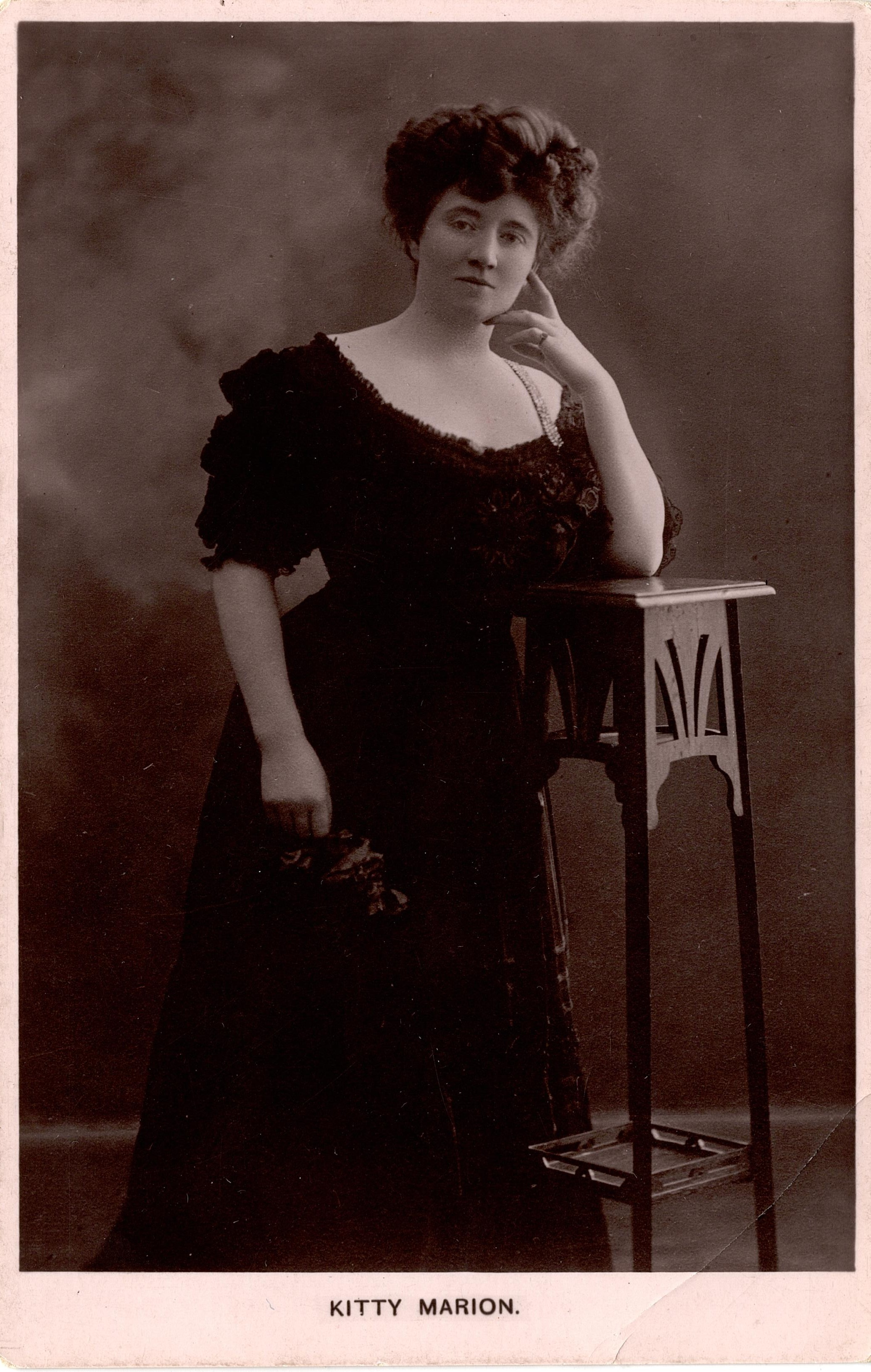 Kitty Marion TWL 2002 177 1908 maybe????